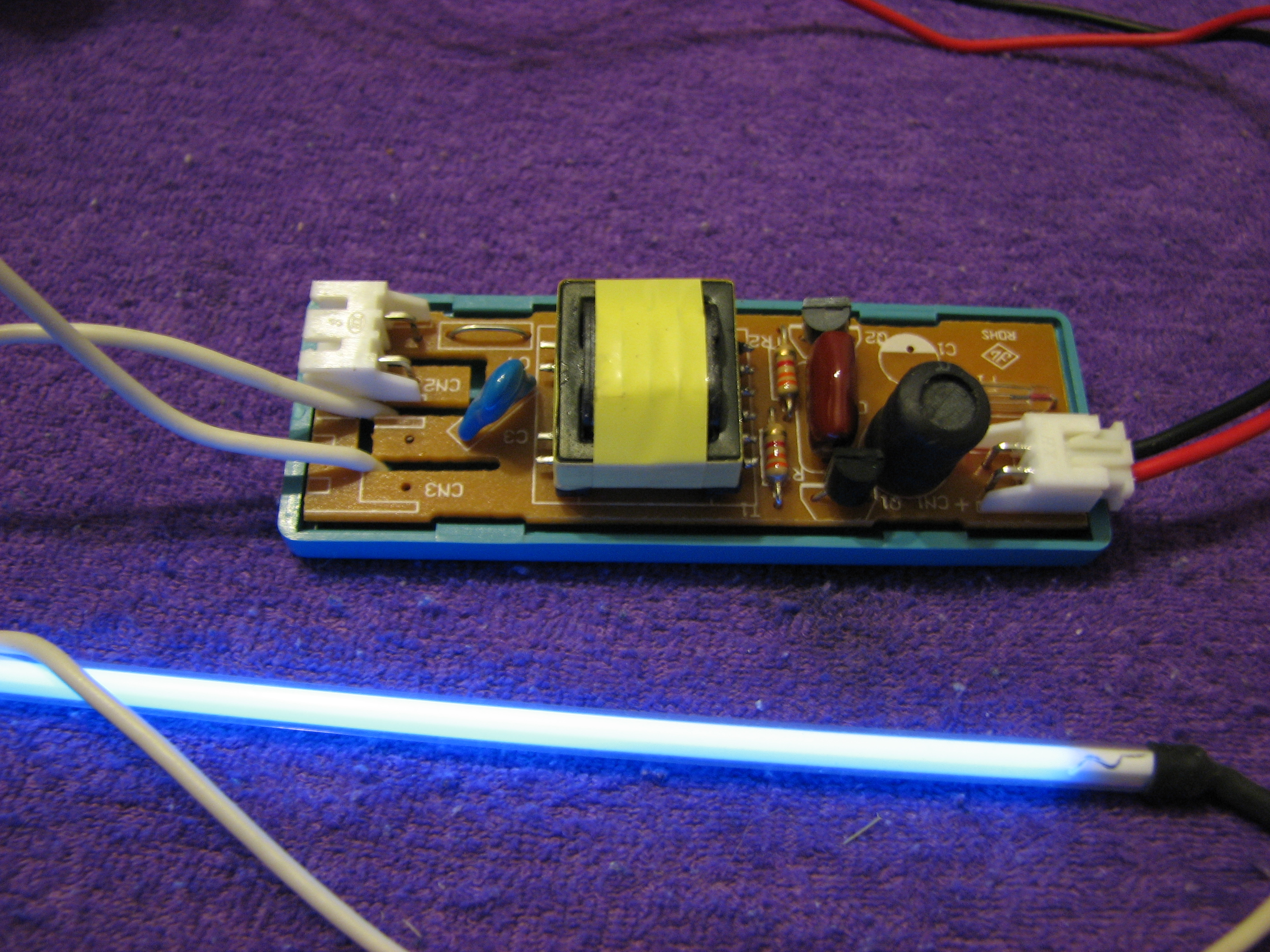 CCFL lamp driver